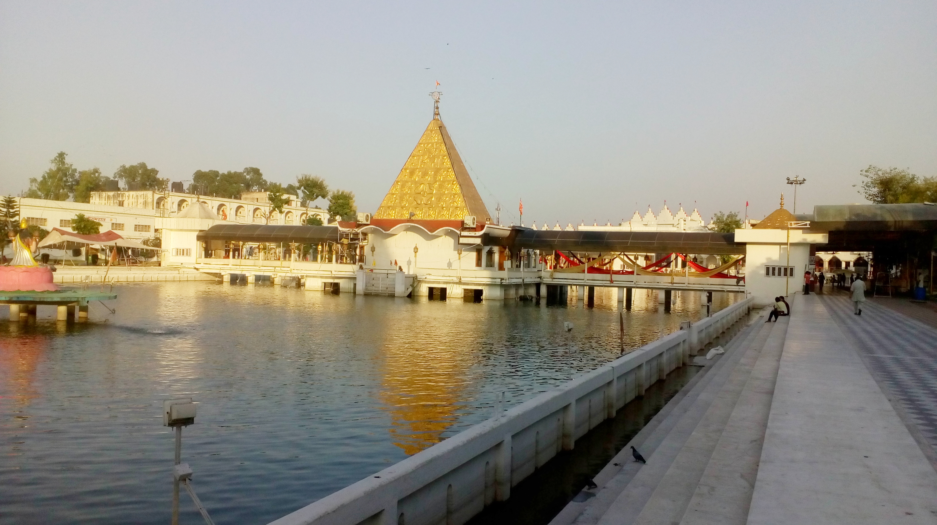 Devi Talab Mandir, Jalandhar City, Jalandhar, Punjab, India